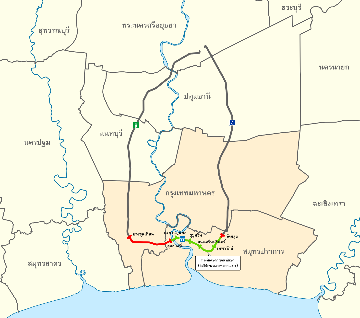 Bangkok Southern Outer Ring Road and Expressway, with the names of interchanges.